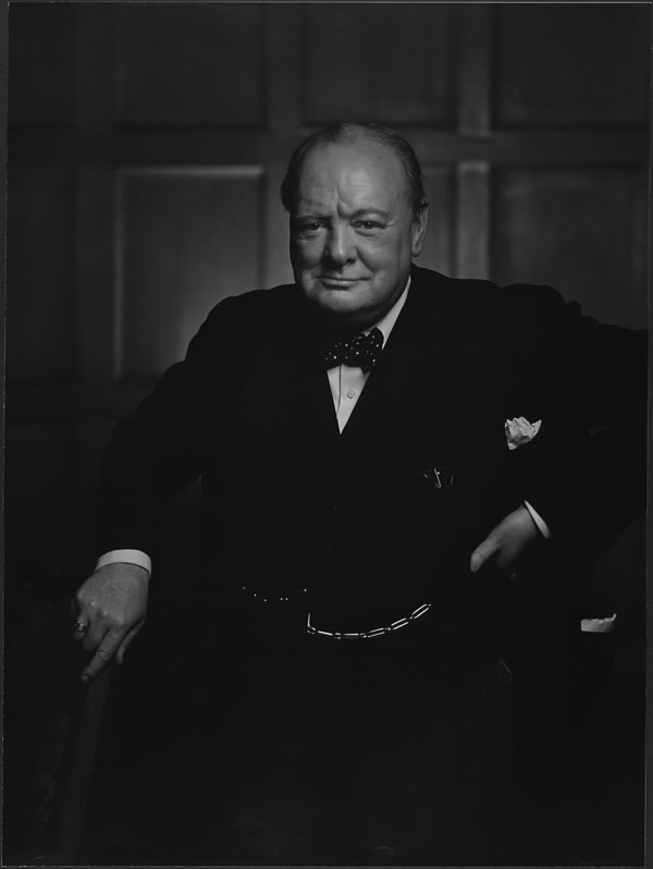 Title / Titre : Sir Winston Churchill smiling / Sir Winston Churchill souriant Creator(s) / Créateur(s) : Yousuf Karsh Date(s) : December 30, 1941 / 30 décembre 1941 Reference No. / Numéro de référence : MIKAN 3840485 Location / Lieu : Ottawa, Ontario, Canada Credit / Mention de source : Yousuf Karsh. Library and Archives Canada, e010751881 / Yousuf Karsh. Bibliothèque et Archives e010751881